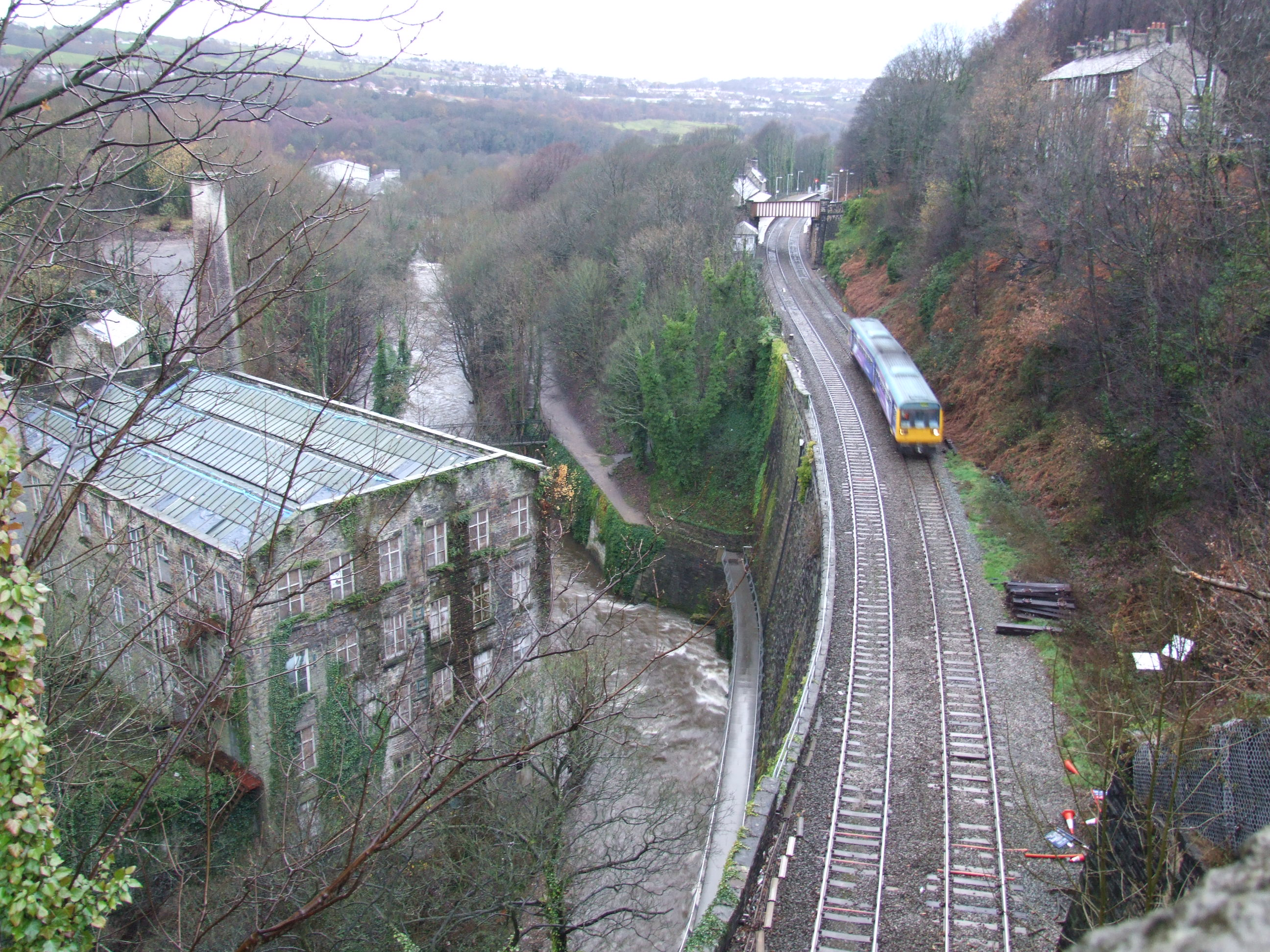 Torr Vale Mill is in "The Torrs', a gorge through Woodhead Hill Sandstone in New Mills, a village in the Peak District. It lies in a loop in the River Goyt. downstream from the confluence with the River Sett. Over the river is railway and the Millenium walkway. Train on line, above end of walkway.